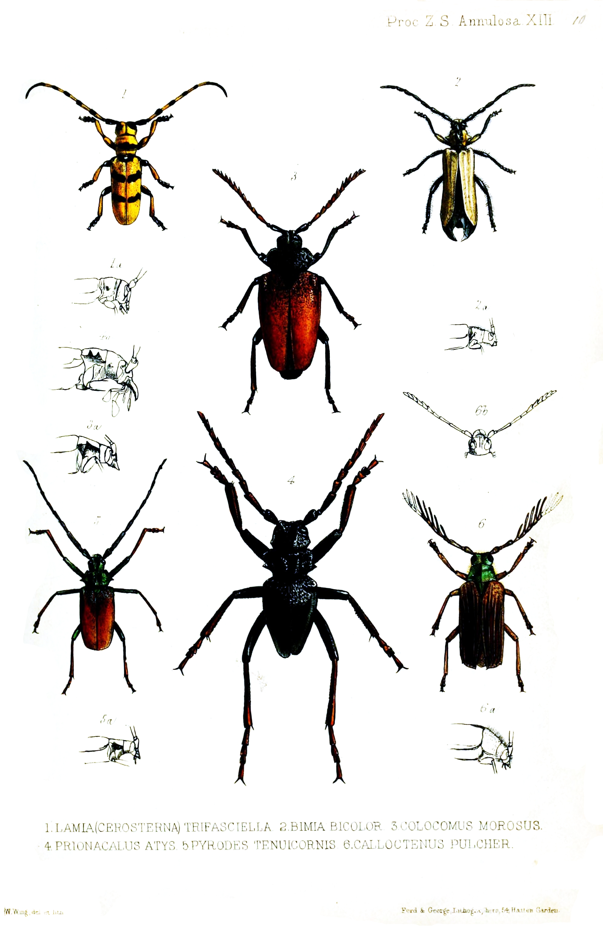 Six species of Cerambycinae